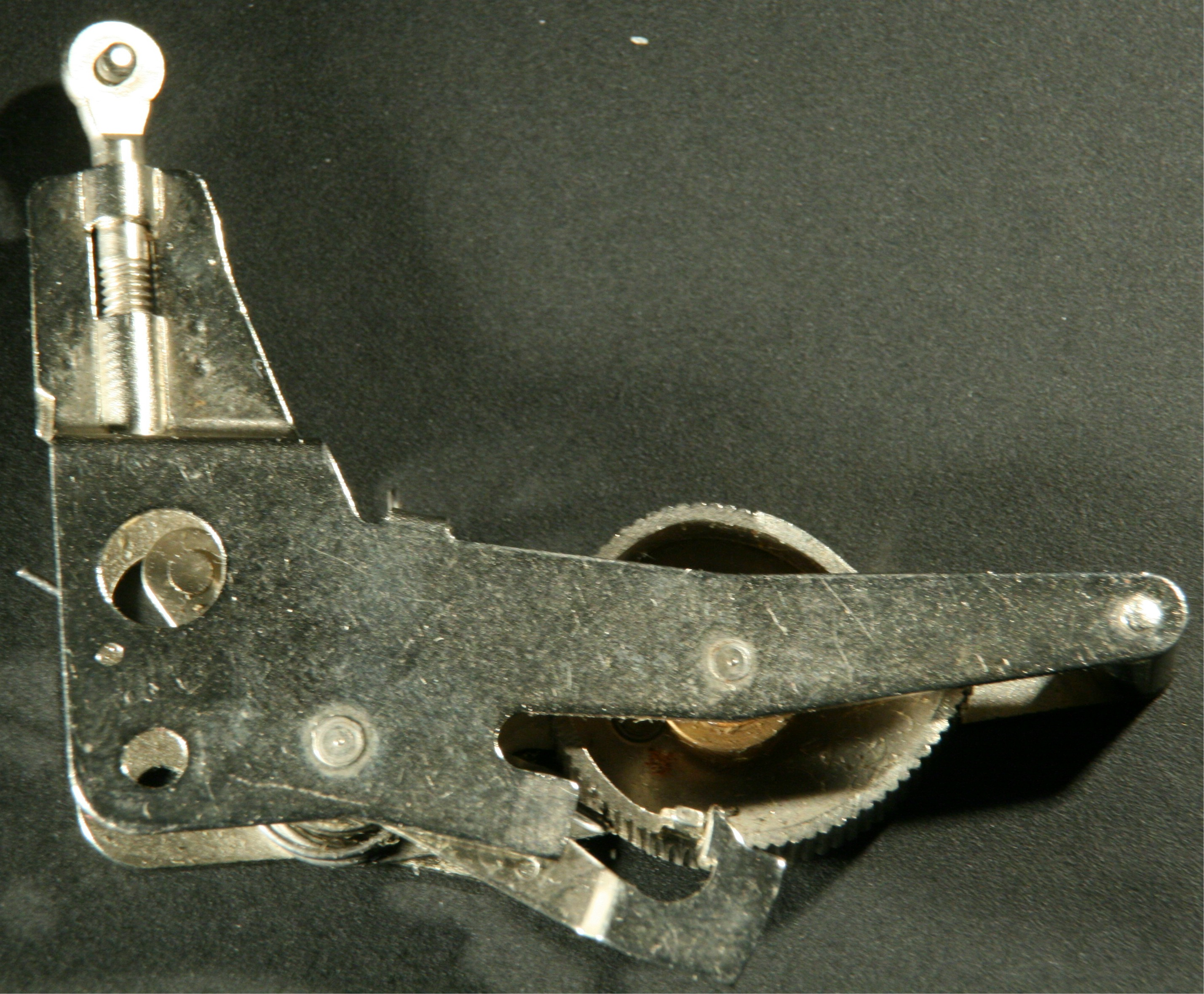 Friden Flexowriter, close-up of a typical cam that catches on the revolving drum (i.e. on the power roll) when a key is pressed down